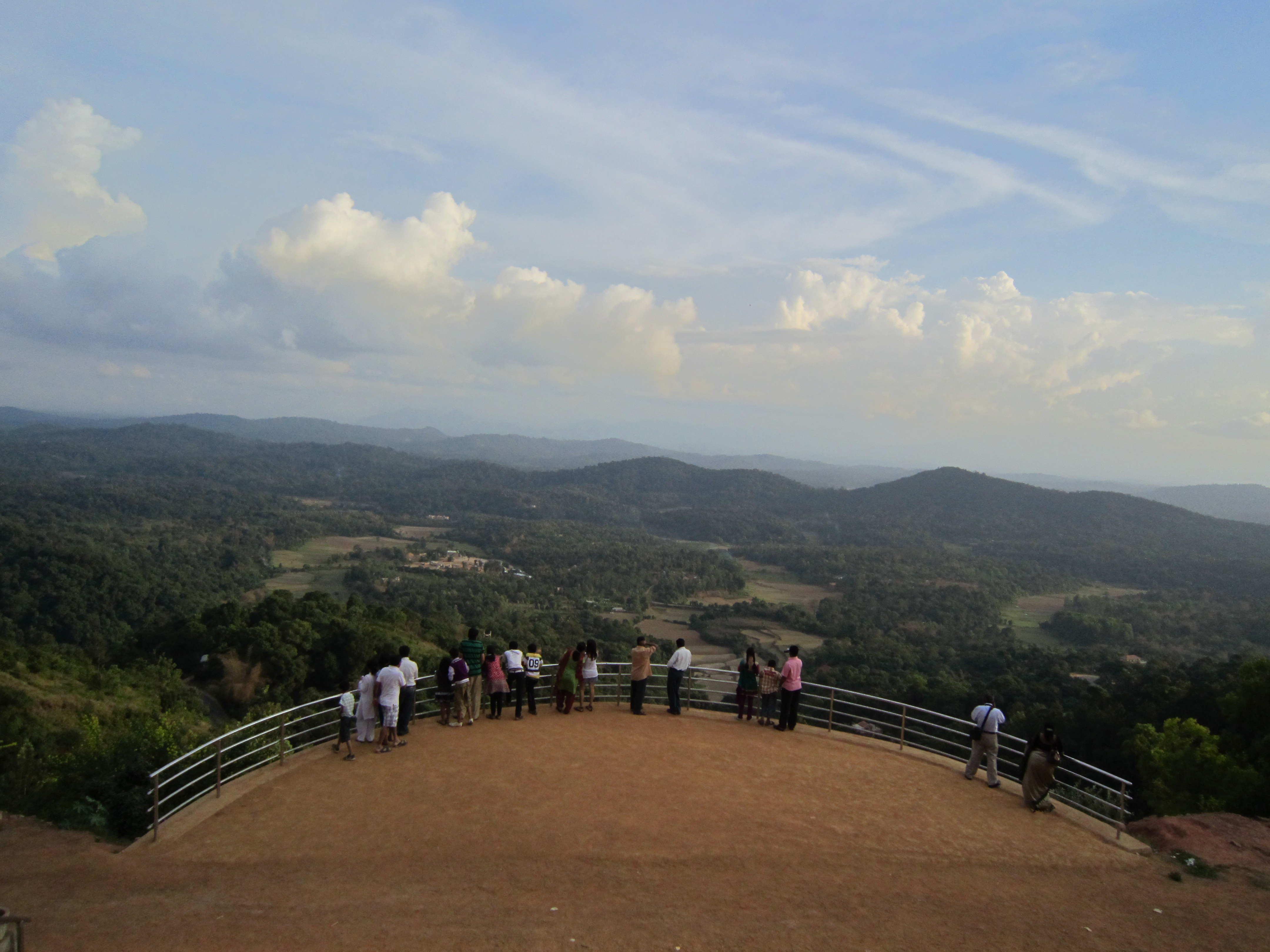 Raja's Seat (Seat of the King) is a seasonal garden of flowers and artificial fountains. It is one of the most important tourist spots in madikeri of Coorg District.